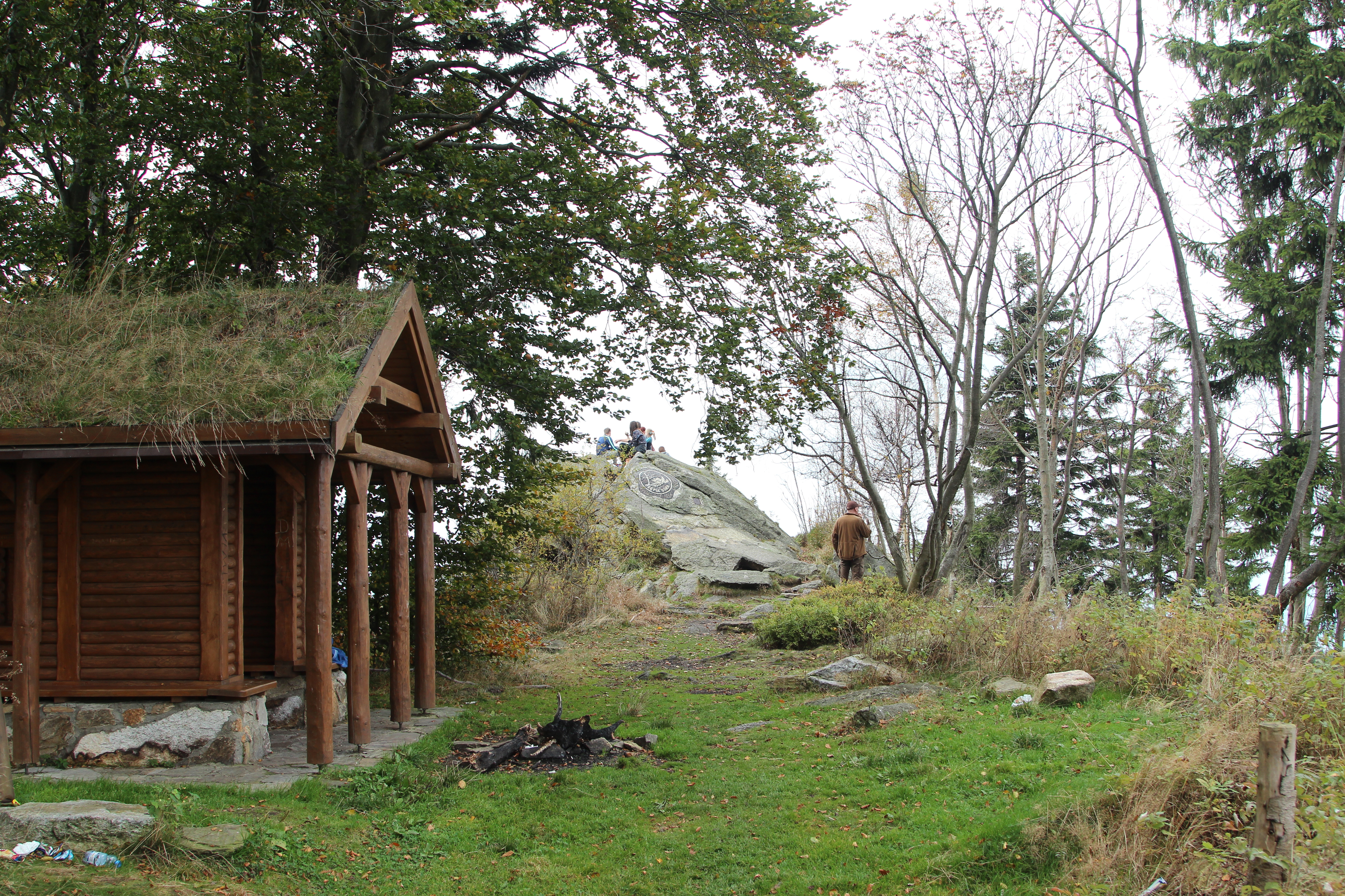 Sępia Góra